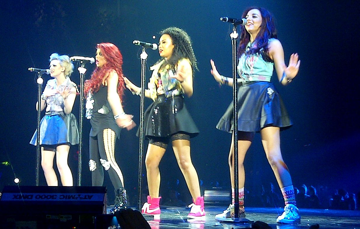 Little Mix performing on the X Factor tour at the Motorpoint Arena, Sheffield, UK.